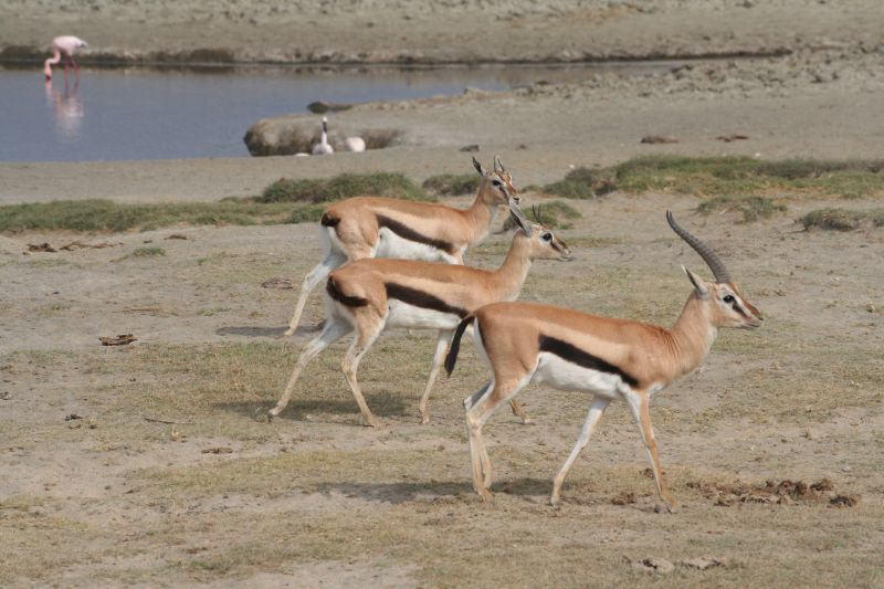 Thomson's Gazelles - Ngorongoro Crater